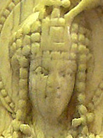 Le Christ couronnant Romanos et Eudoxie Constantinople, ivoire, vers 945-949. H.: 24,6 cm Département des Monnaies, Médailles et Antiques, Bibliothèque Nationale de France. If it is 945-949, it couldn't be Romanos IV Diogenes (1030 — 1072) and Eudokia Makrembolitissa. It should be Roman II (938 — 963) with his 1st wife Bertha of Italy, who took the name of Eudoxie. They were married in 944-949.